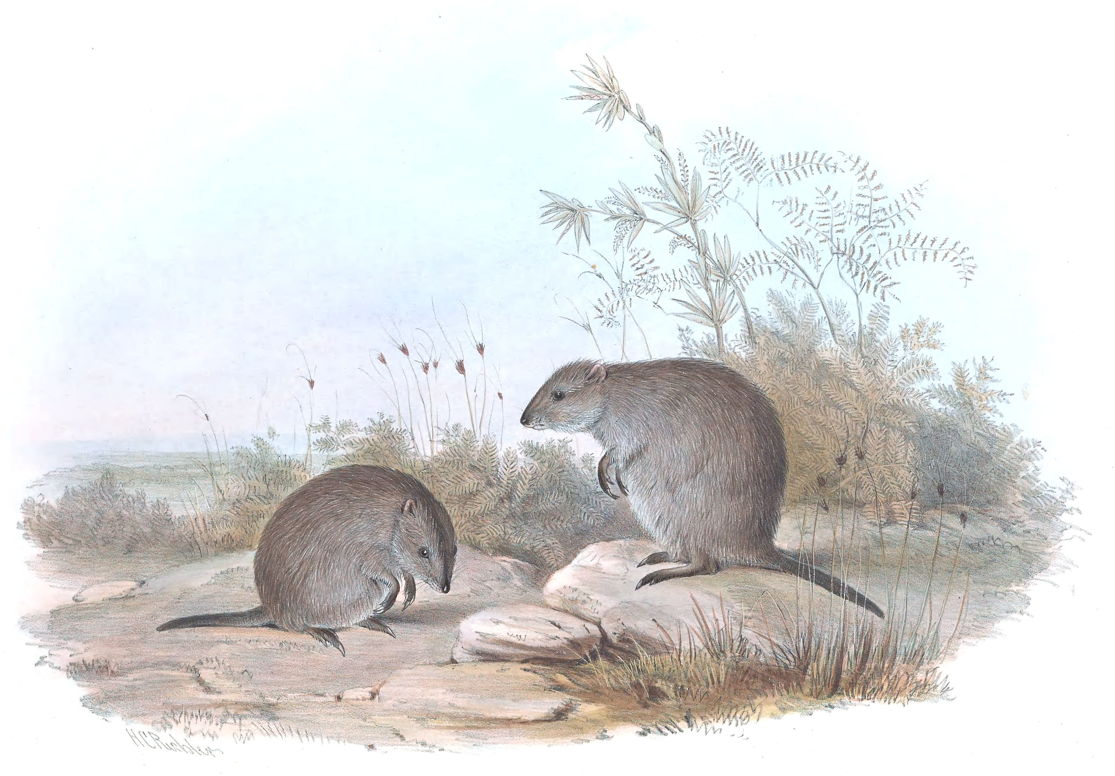 Hypsiprymnus gilbertii Gould, J. 1841. A Monograph of the Macropodidae, or family of kangaroos. London : J. Gould Part 1. [un-numbered plate]. The title is the caption in that work, and may be a synonym. The file was uploaded with the current name in the category, a crop and other adjustments were made to the image. The caption and other details were removed.